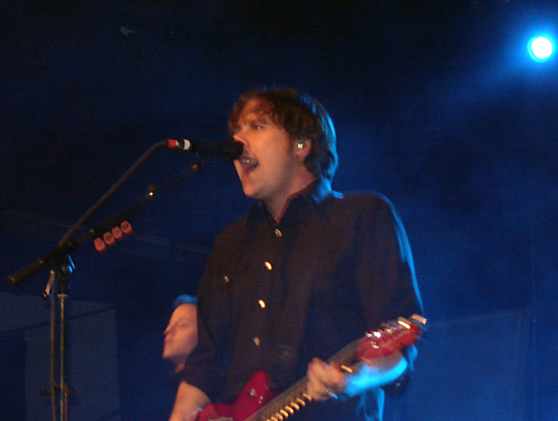 Jim Adkins, singer and guitarist of Jimmy Eat World, at Schlachthof, in Wiesbaden, Germany